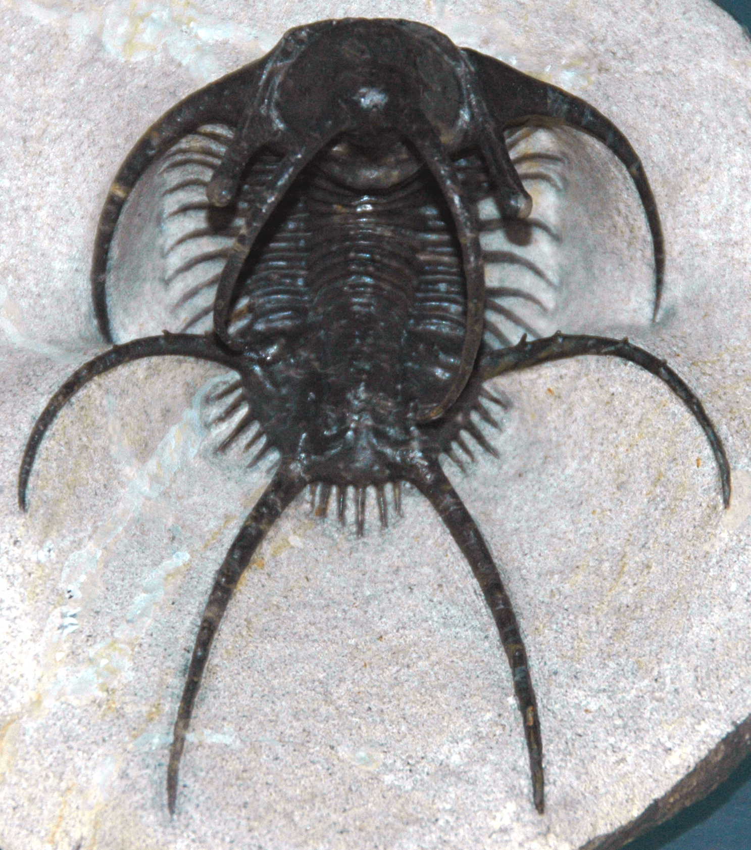 Ceratarges spinosus fossil trilobite from the Devonian of Morocco (public display, FMNH PE 60826, Field Museum of Natural History, Chicago, Illinois, USA). Some polymeroid trilobites evolved extremely spinose bodies, especially odontopleurids and some lichids. Here's an example of a spinose lichid trilobite. This complete exoskeleton has eight prominent spines. It has two pairs of long, curving cephalic (head) spines - one pair of genal (cheek) spines and one pair extending from the glabella. The eyes are perched atop a pair of stalks that extend posteriorly upward. The pygidium (tail) also has two pairs of long, curving spines - one pair from the anterolateral corners and one pair extending from the posterior pygidial margin, straddling the axis. Series of smaller, straight spines are present between the larger pygidial spine pairs. Classification: Animalia, Arthropoda, Trilobita, Polymerida, Lichidae, Trochurinae Provenance: AM Limestone, Middle Devonian; southern Morocco.